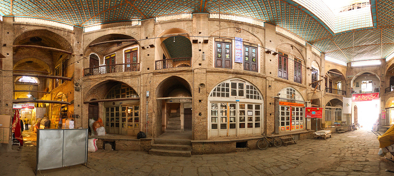 Iranian old markets